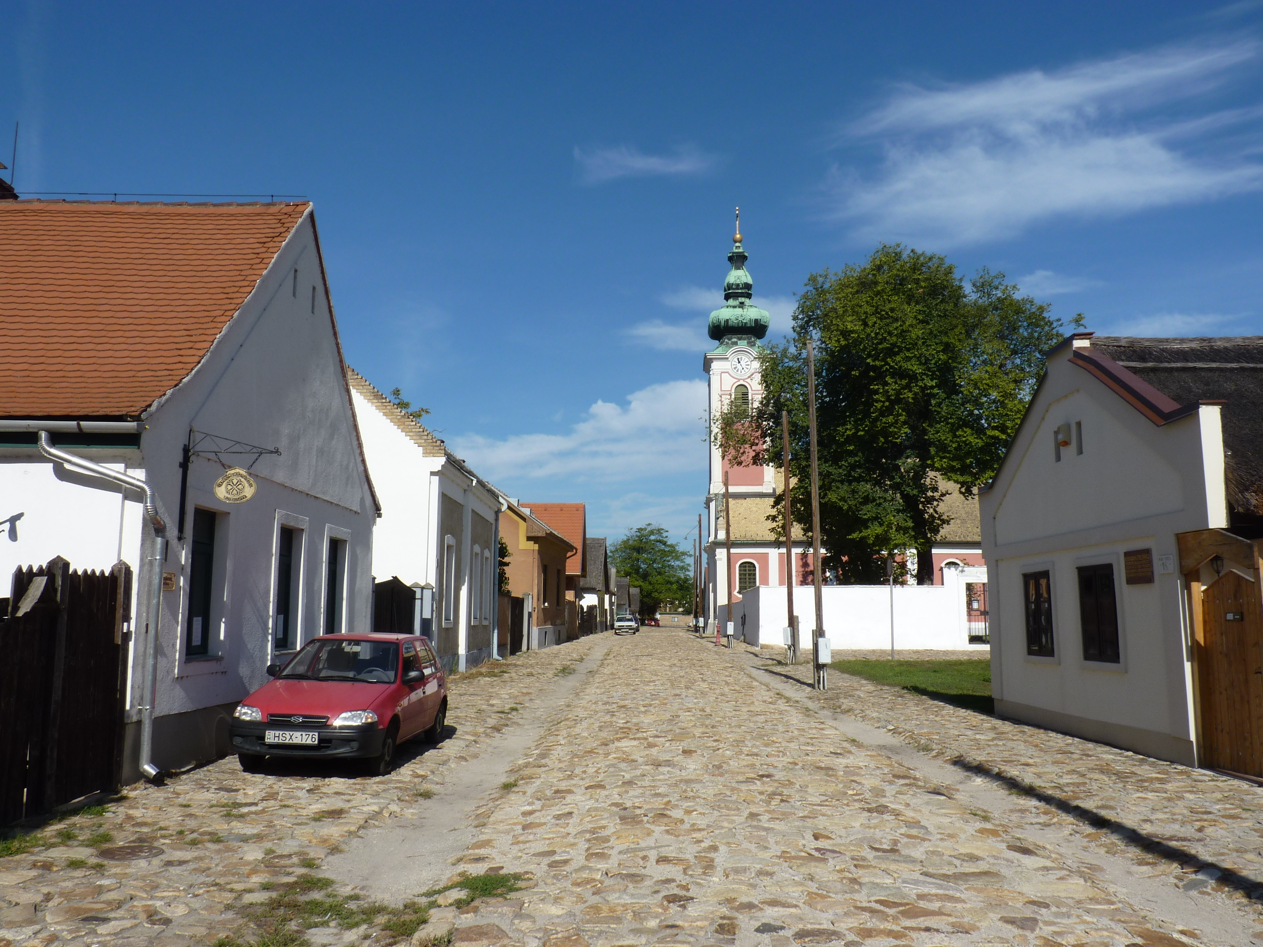 Rác utca, Székesfehérvár